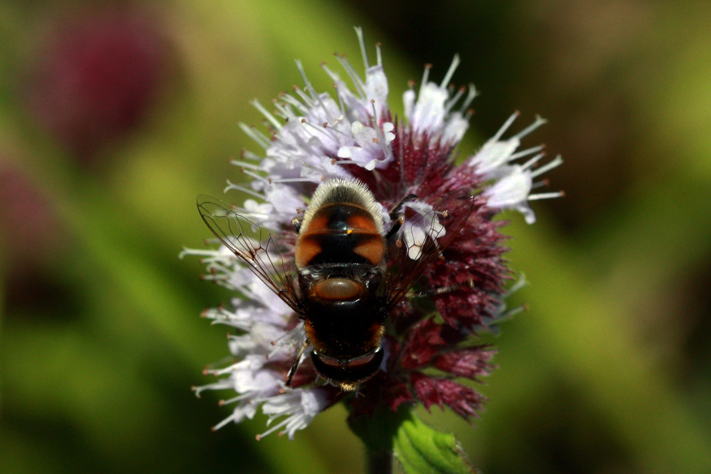 Hoverfly (Eristalis intricarius), male